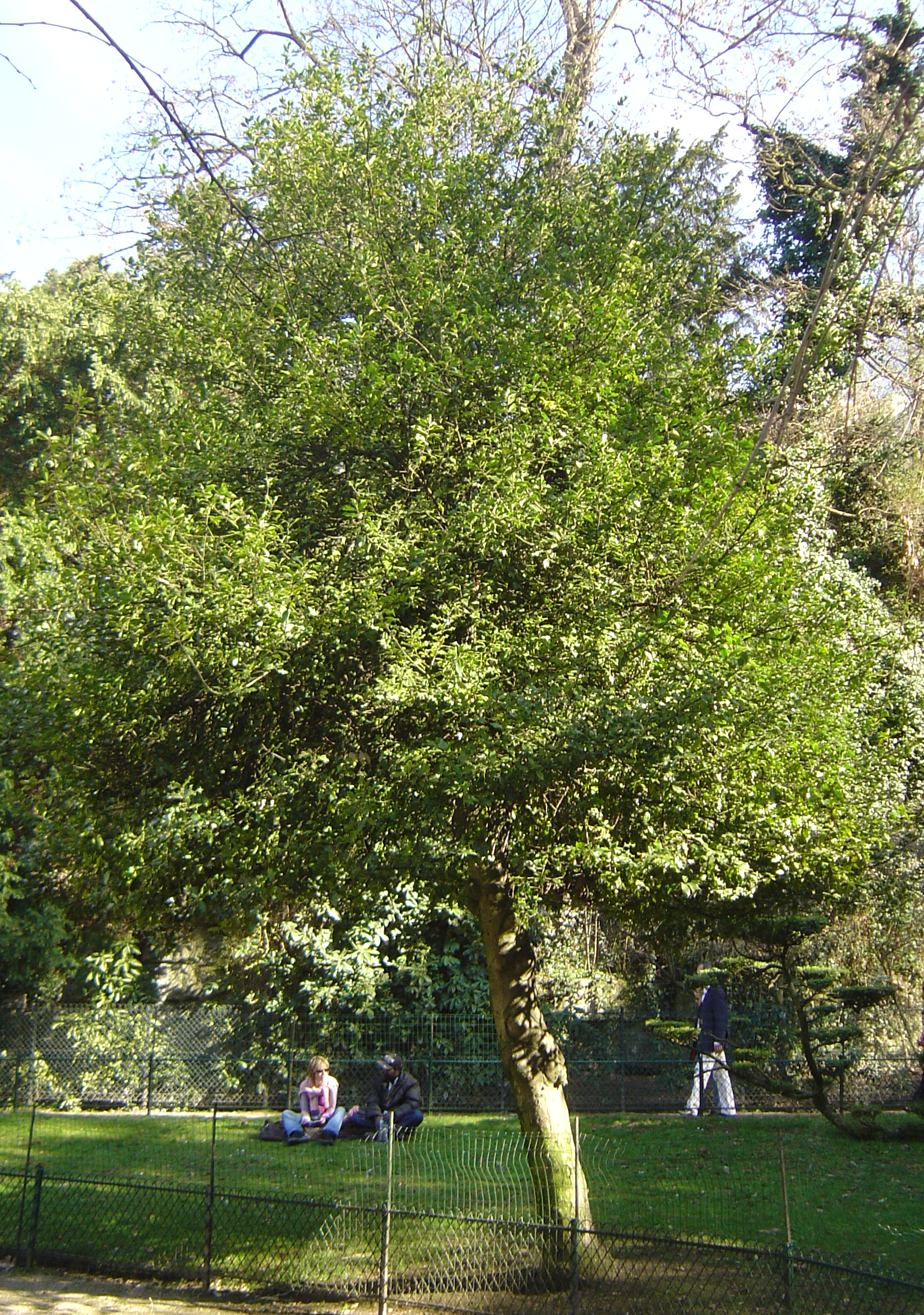 holly, photographed at the Buttes Chaumont park in Paris